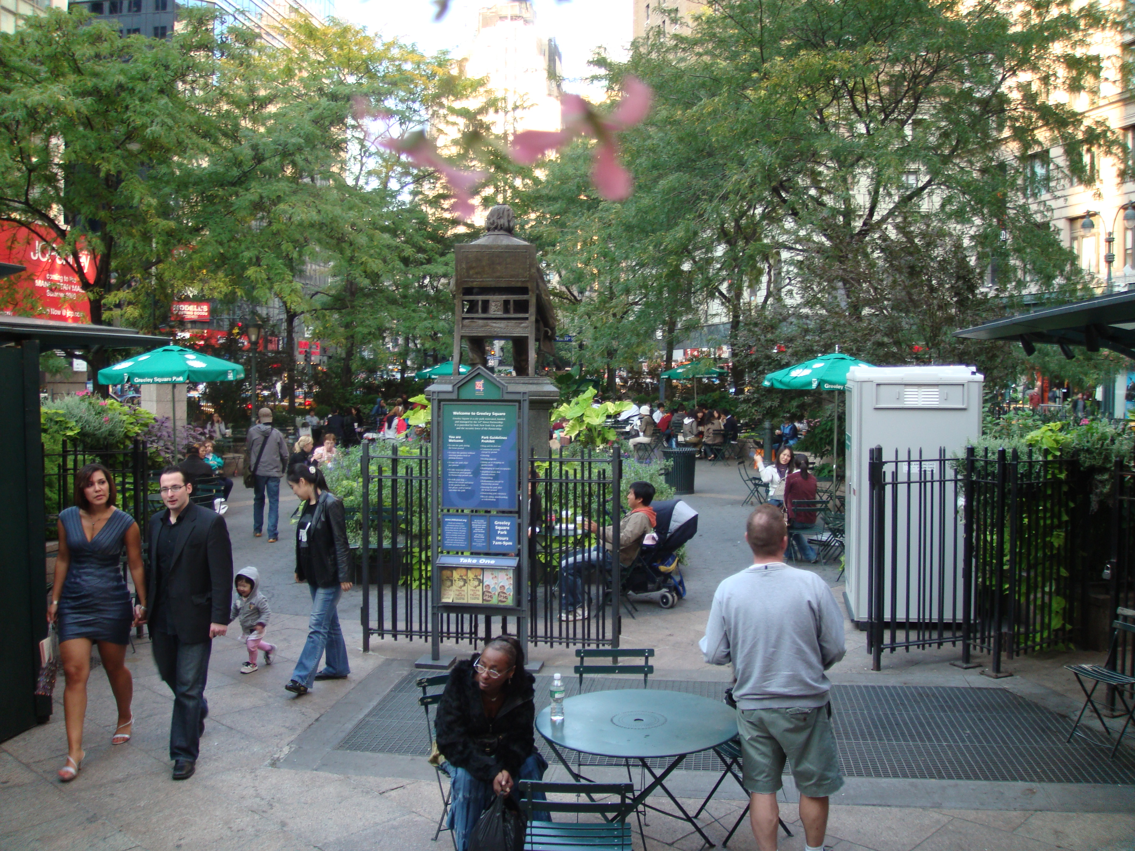 This photo is of Wikis Take Manhattan goal code D27, Greeley Square.